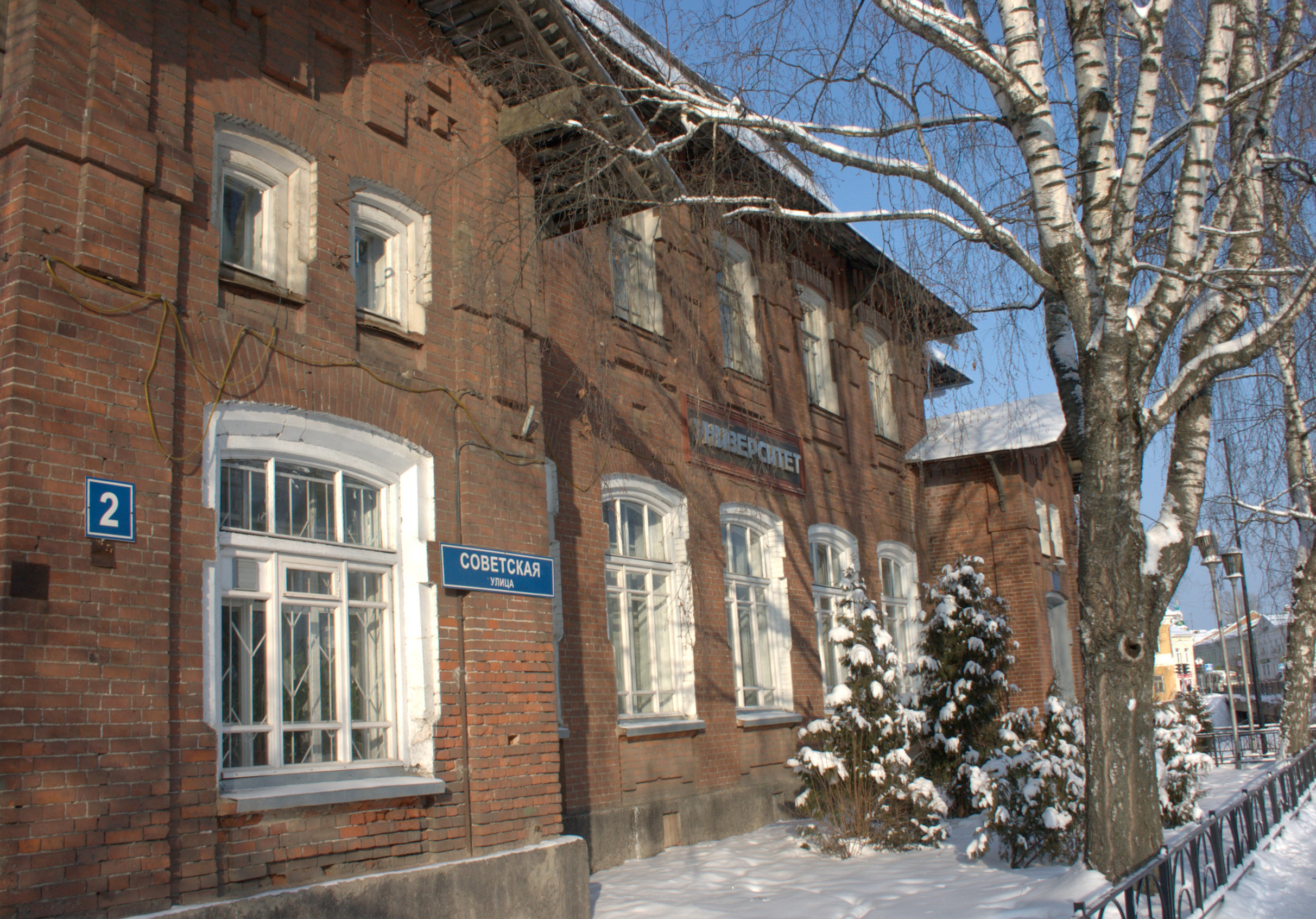 Pereslavl-Zalessky University building Здание Университета в Переславле-Залесском